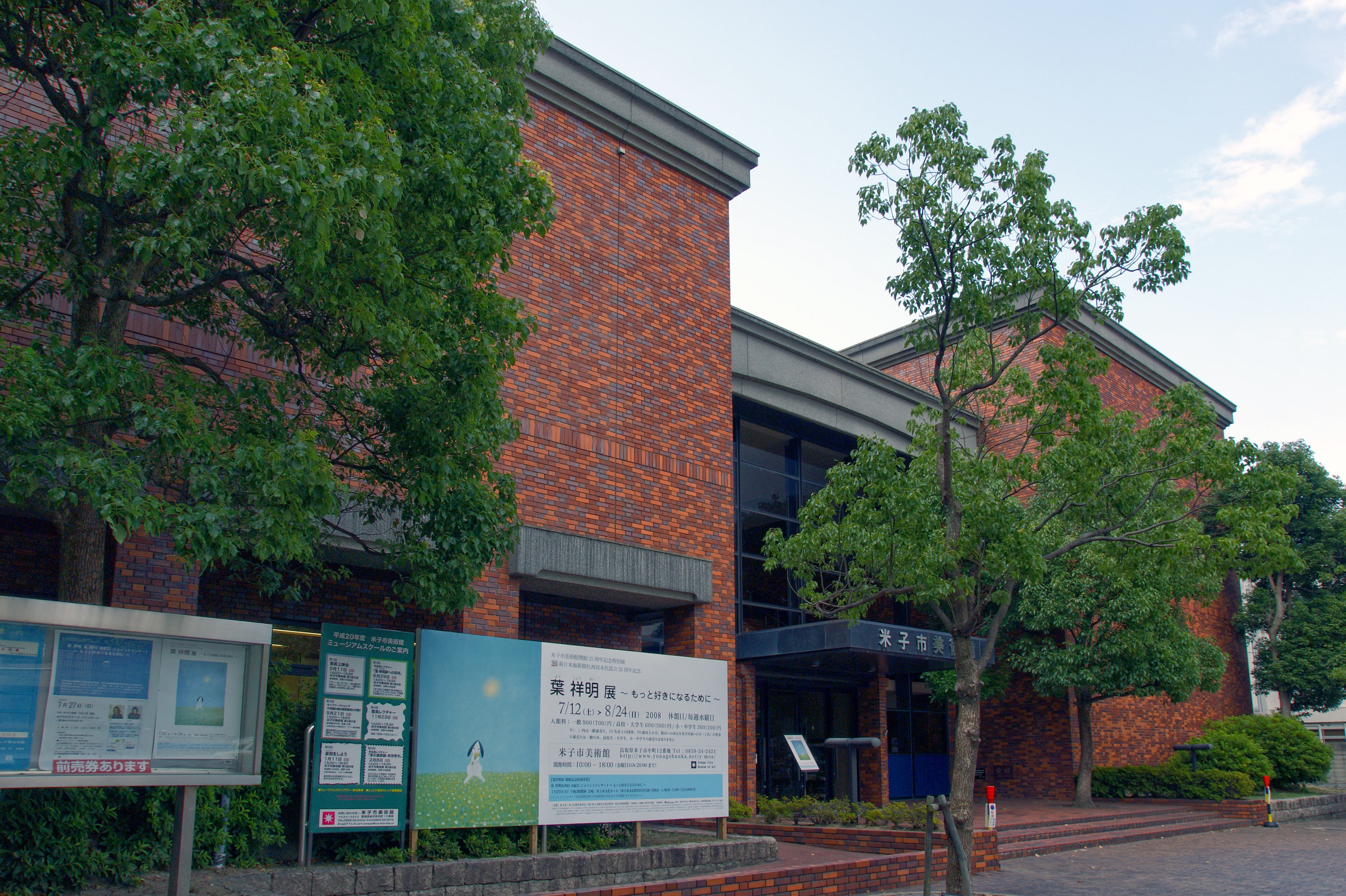 Yonago City Museum of Art in Yonago, Tottori prefecture, Japan